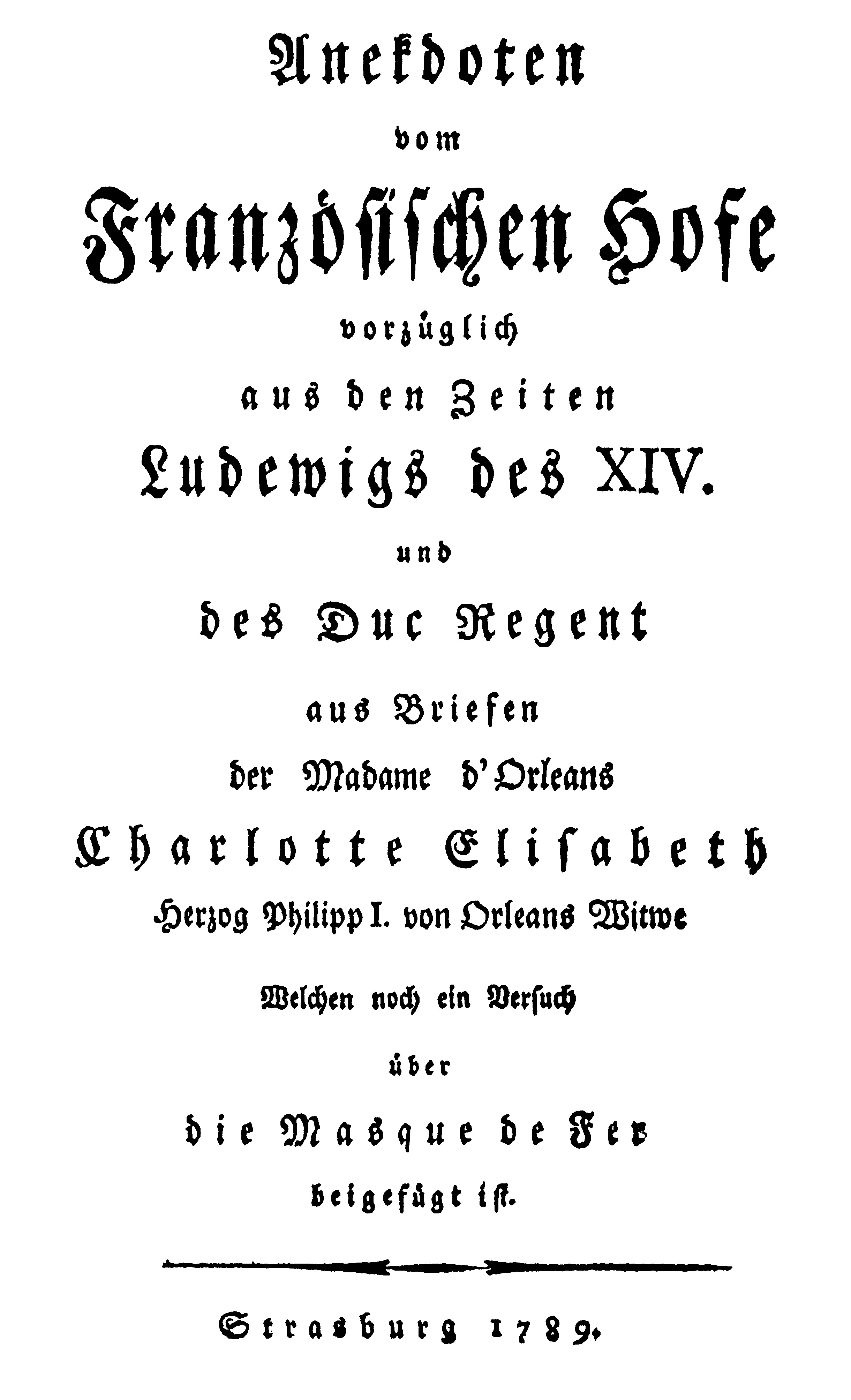 This is a scan of the historical document